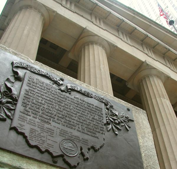 Plaque commemorating the passage of the Northwest Ordinance outside Federal Hall in Manhattan. The same plaque is also placed in front of the administration building of Marietta College, Marietta, Ohio. Marietta was the first capital of the Northwest Territory.